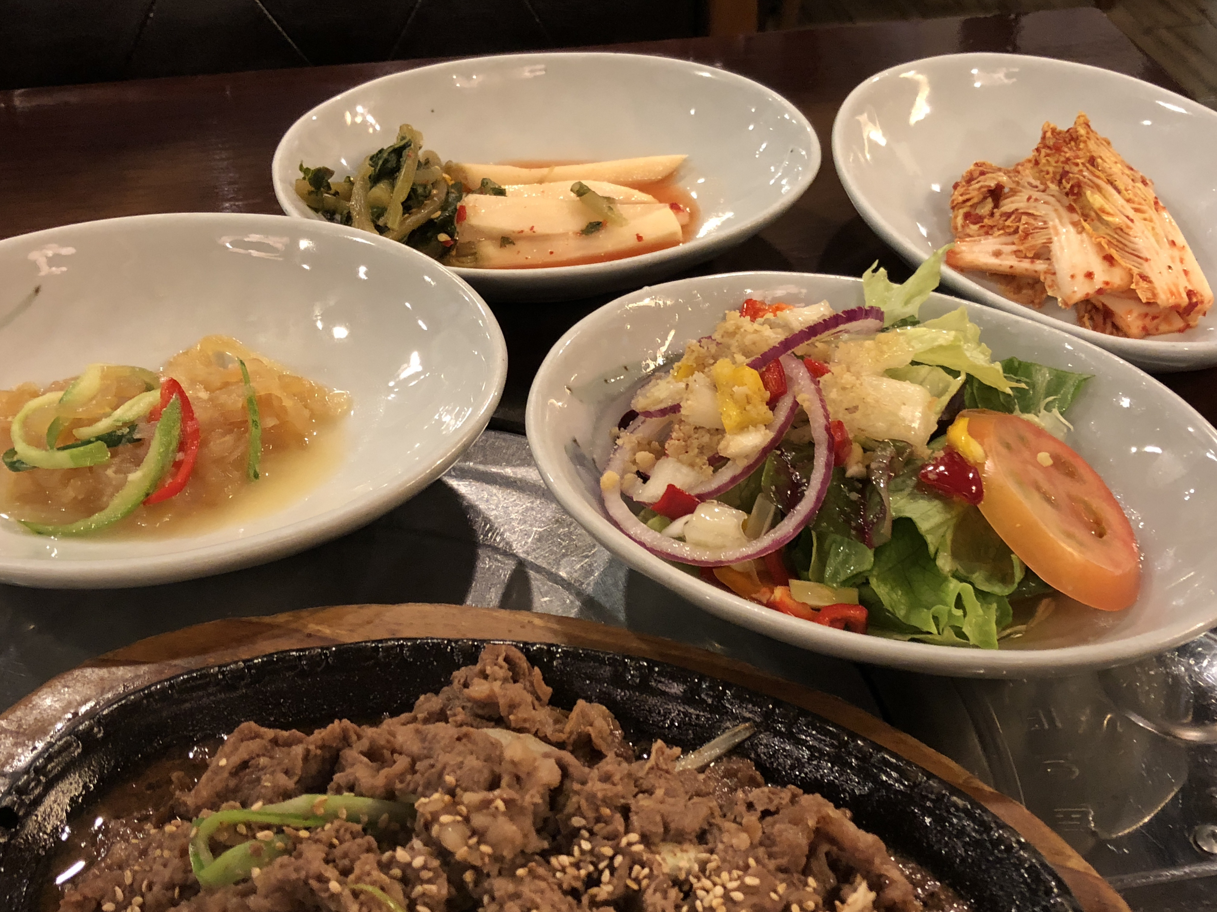 A traditional meal of bulgogi and side dishes